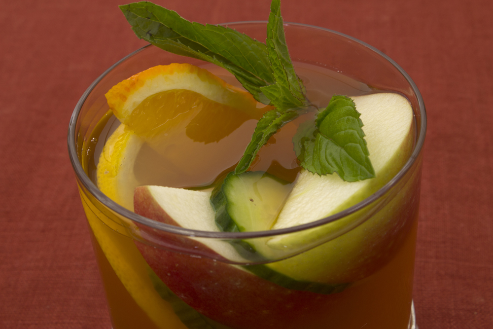 Pimms No 1 Cup - close-up with mint sprig and fruit